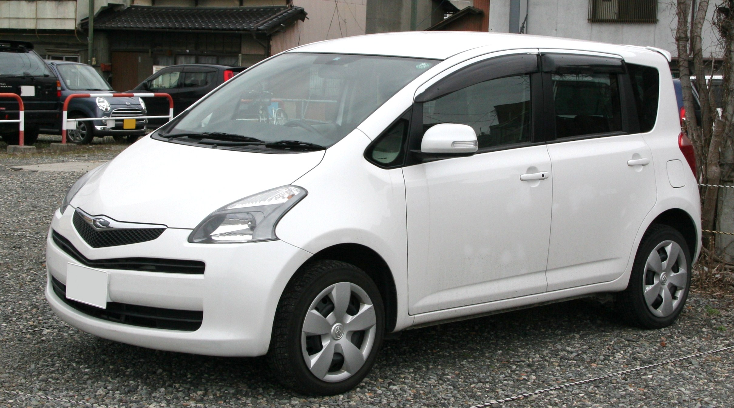 Toyota Ractis